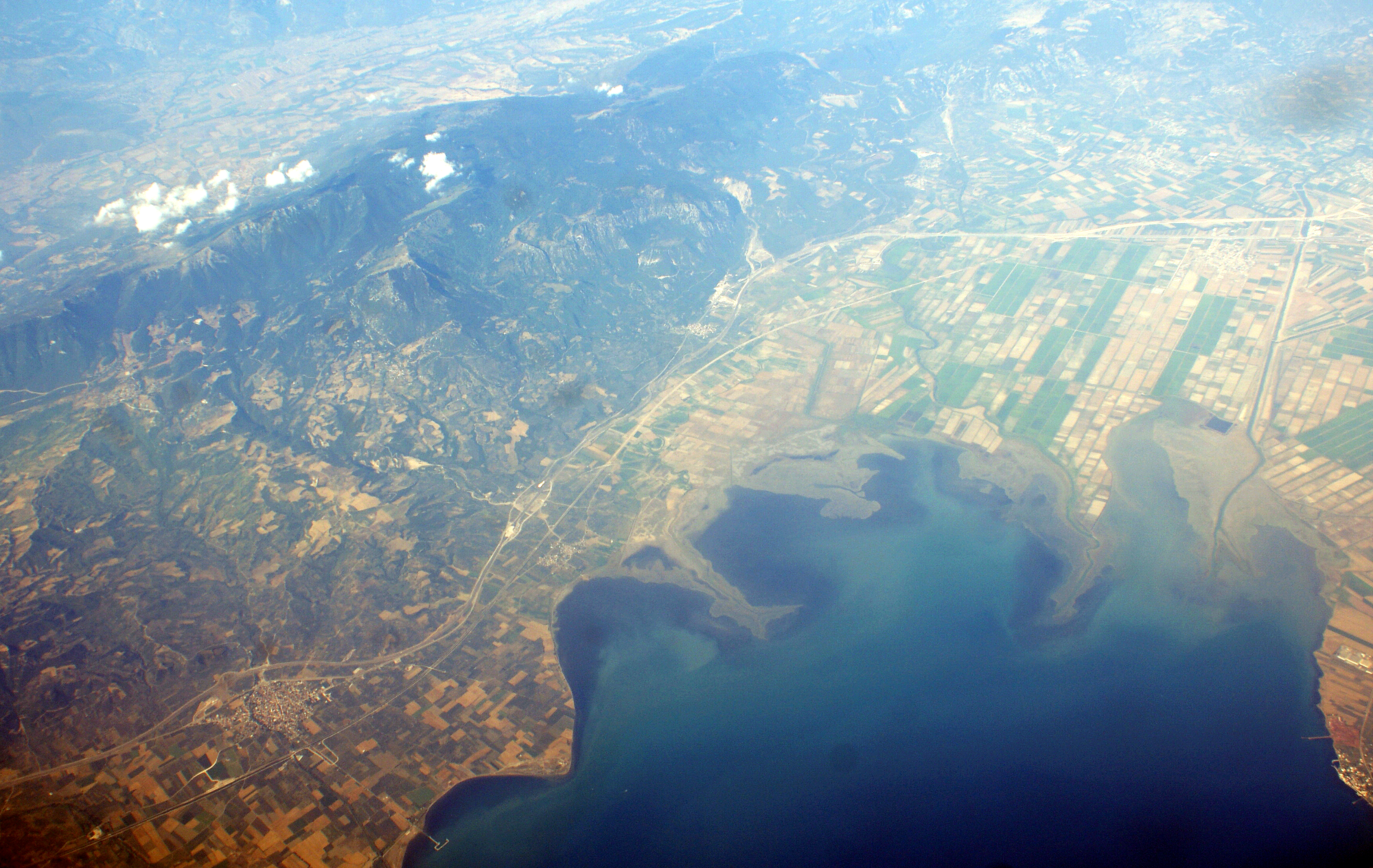 Air view of Thermopylae, Greece